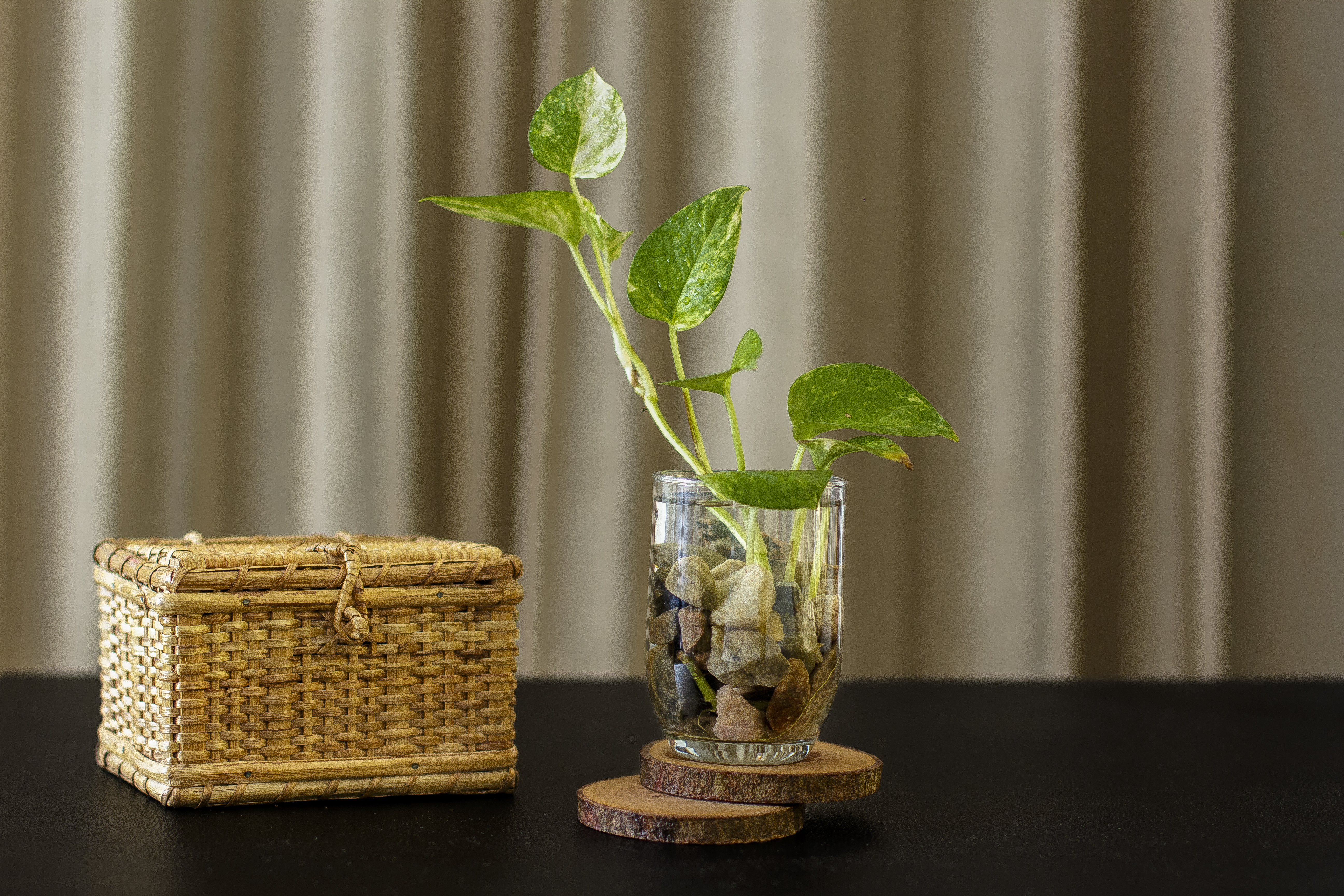 Devil's ivy